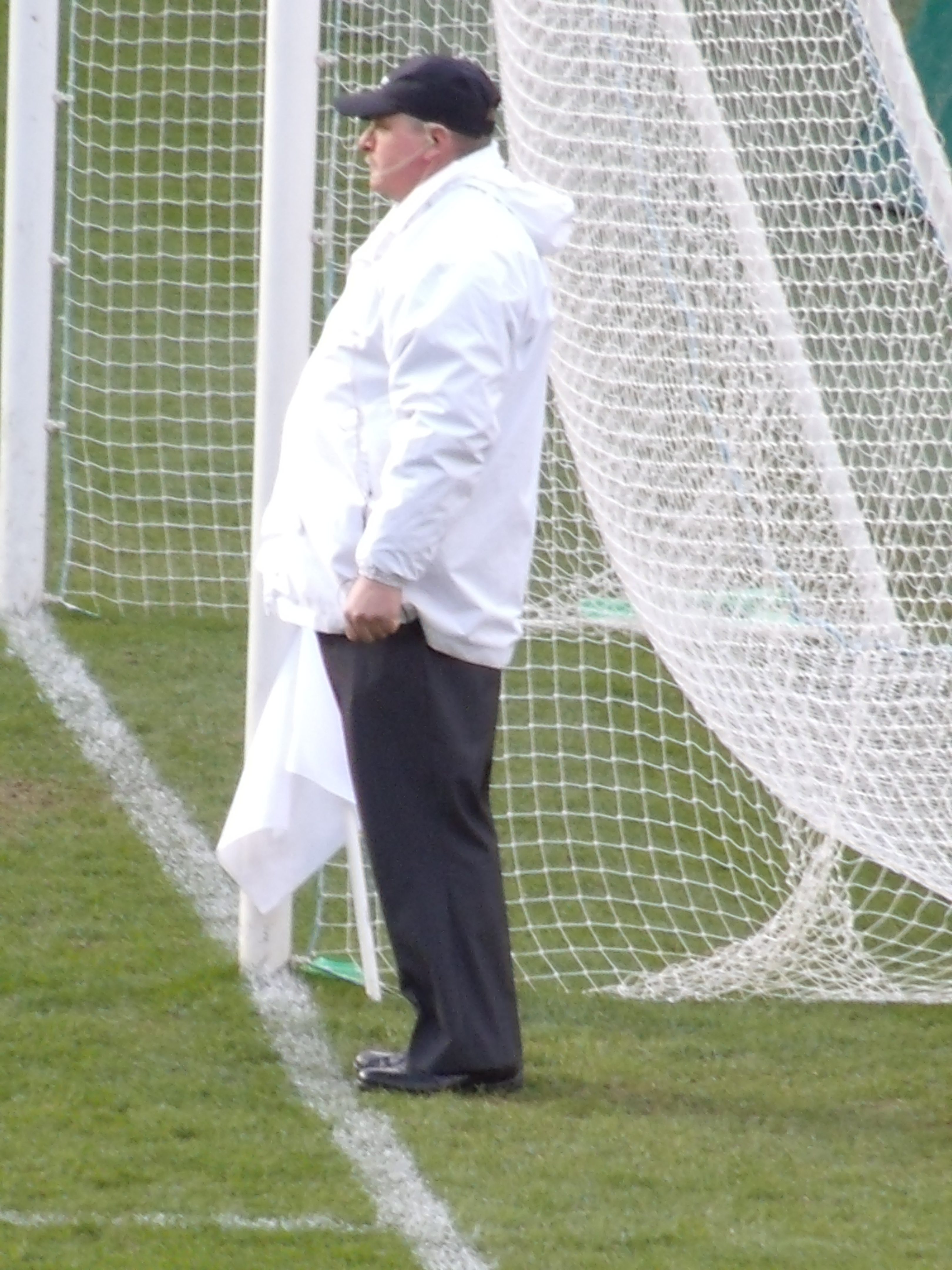 GAA Umpire